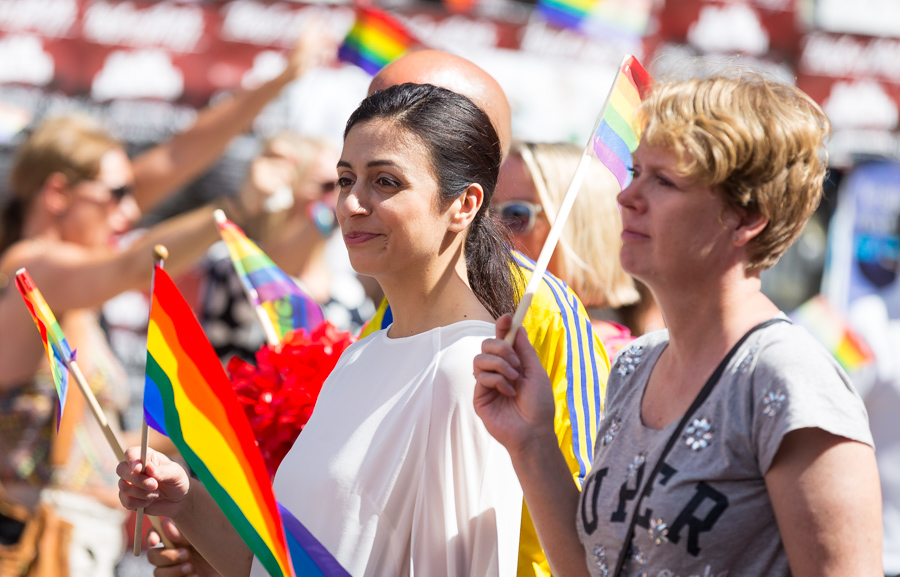 Politician Hadia Tajik at Pride parade in Oslo